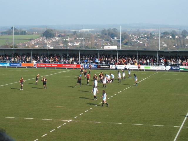 Exeter Chiefs Stadium, Sandy Park, ExeterFrom the new stand at Sandy Park, you have a 180 degree view of the East Devon countryside and across to the sea at Exmouth.